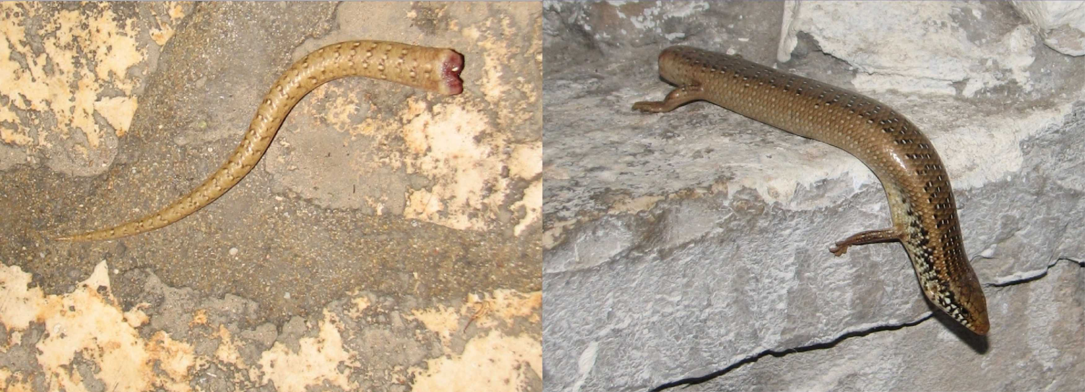 A skink that had split in two, leaving its viscous tail to dance autonomously on the stairway. These pleasant lizards come out abound in springtime from their holes near human habitat across the city. The two parts of the animal are positioned in this image collimated with one another, while the difference in colours between them is resulted by the use of camera flash for just one of the shots but not using it at the other.